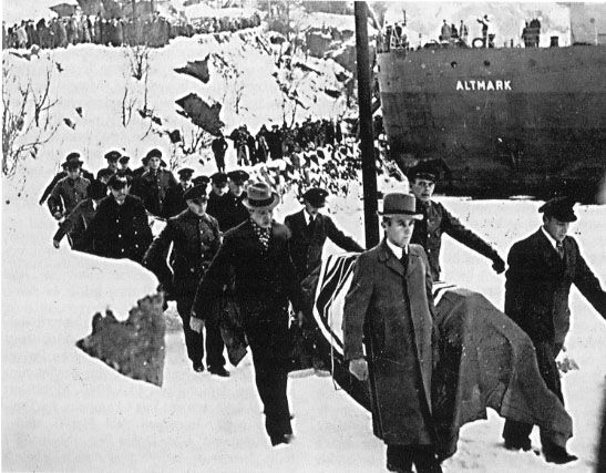 Flag-draped coffins containing German dead are brought ashore for burial after the Altmark Incident in Jøssingfjord, Norway.